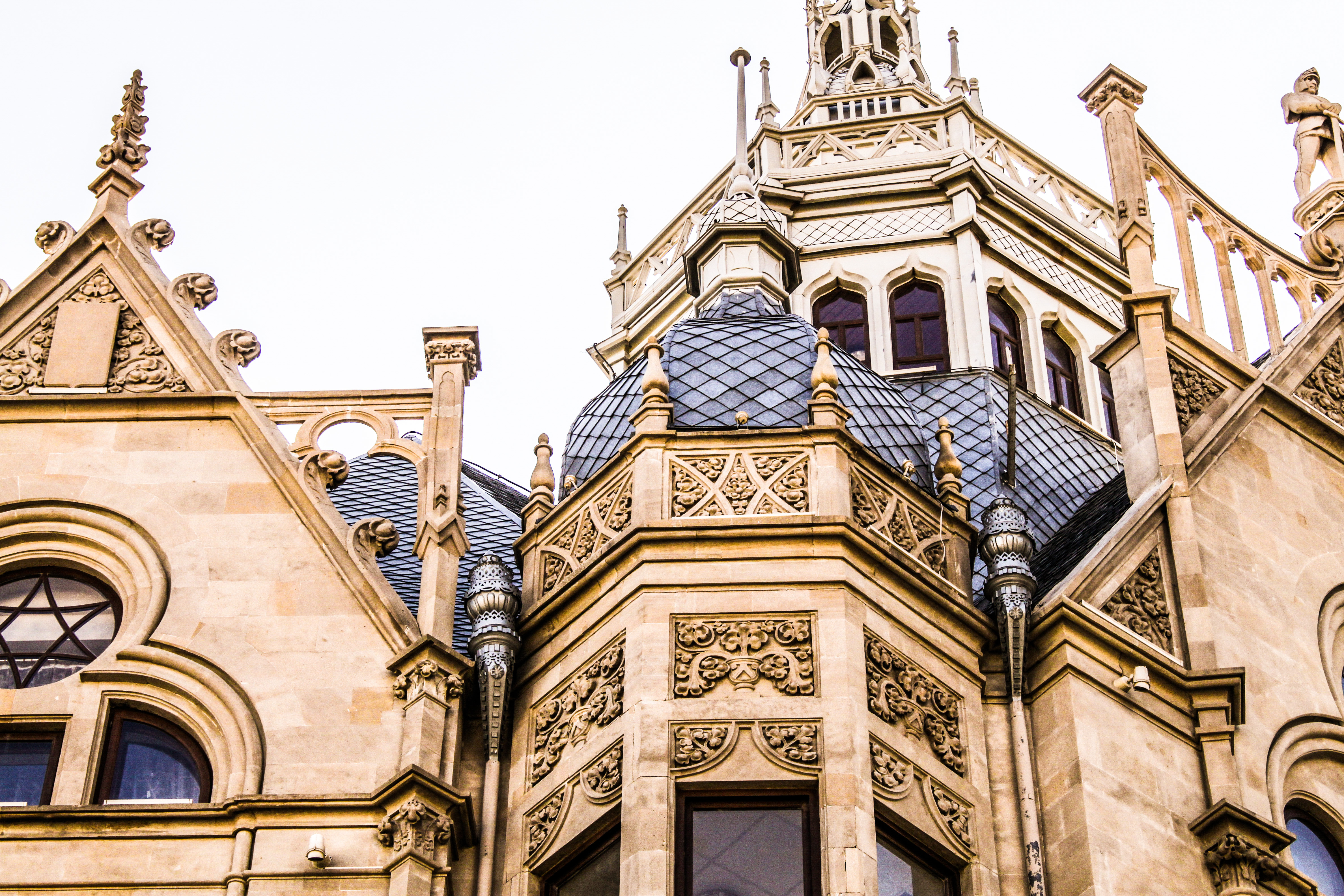 Palace of Happiness façade